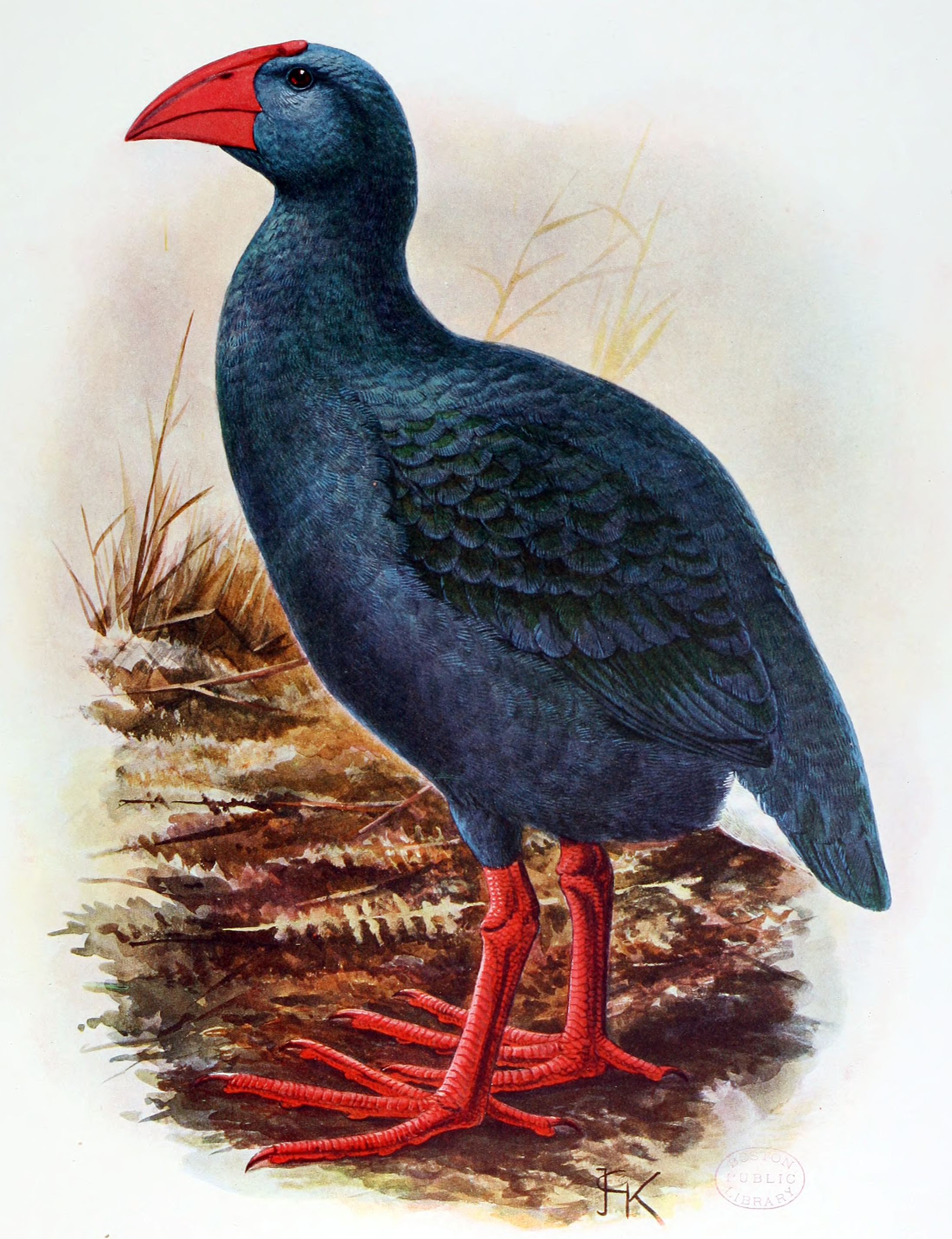 The Réunion Swamphen, Réunion Gallinule or Oiseau bleu (Porphyrio coerulescens) is a hypothetical species of extinct rail from Réunion, Mascarenes until now only known from reports of travellers. One-Half Natural Size—from descriptions